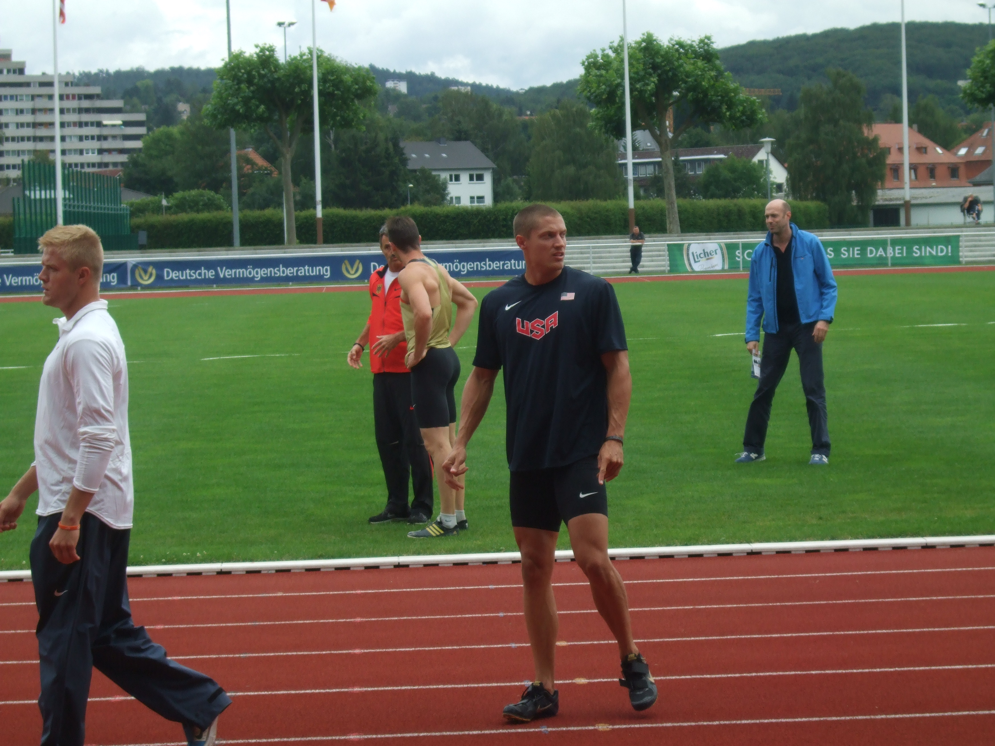 The decathlete Trey Hardee competing in the long jump at the 2012 Thorpe Cup